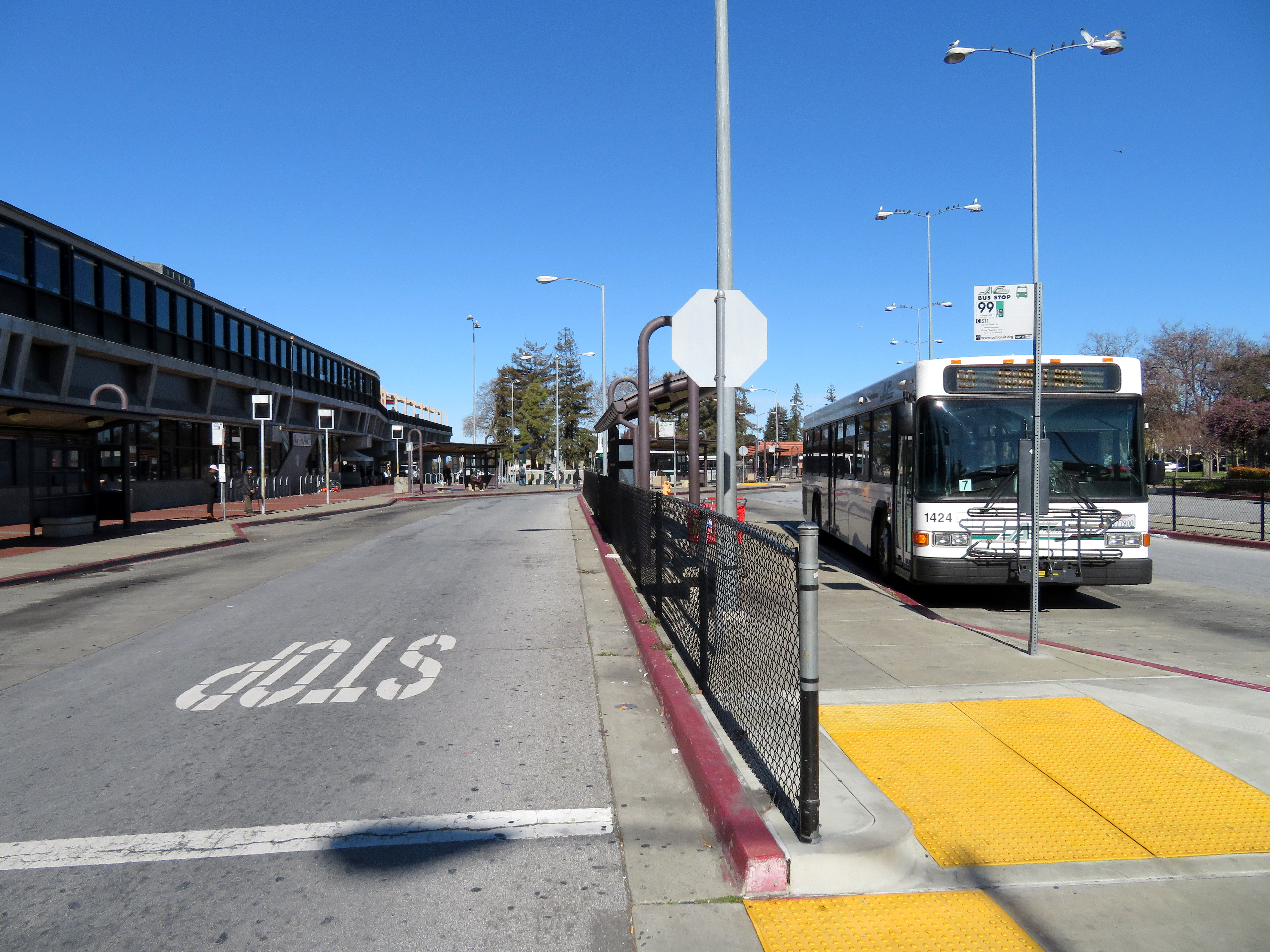 AC Transit route 99 bus at Hayward station in March 2018